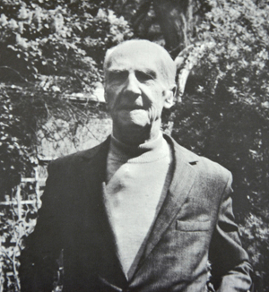 Stephan von Breuning soon before his death